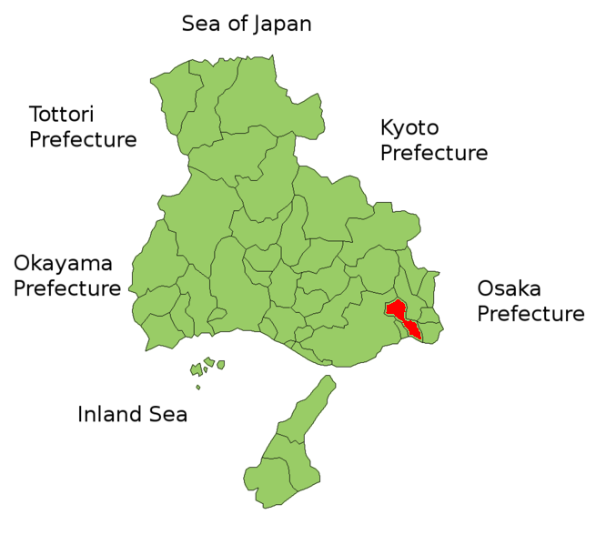 Location of the city of Nishinomiya in the Hyogo Prefecture, Japan